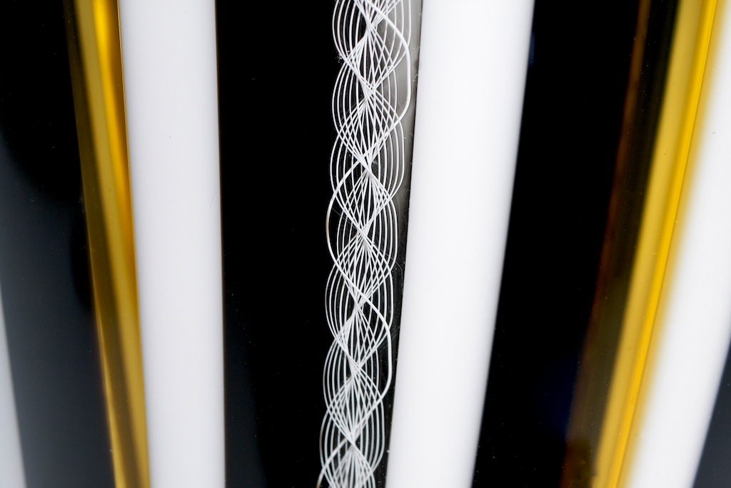 Example of canework in blown glass. Incorporates both solid color and complex cane. Created by David Patchen.